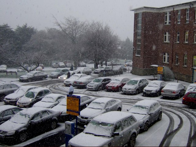 Car Park at the Bon Secours Hospital The car park on a winter's day